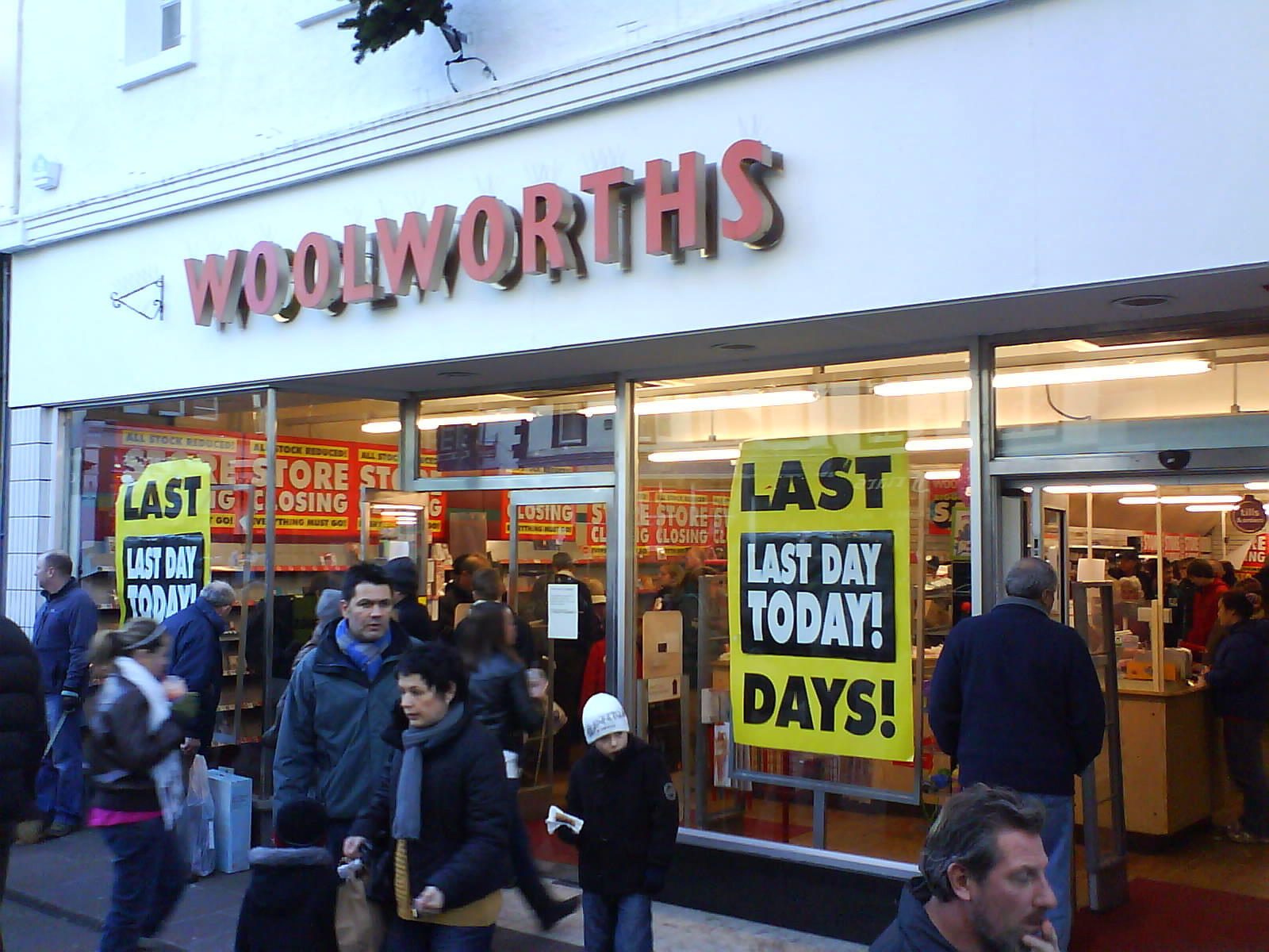 Woolworths in Keswick, on the day it closed. See signs in window.